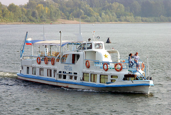 Fortuna on the Belaya River in Ufa (2005)